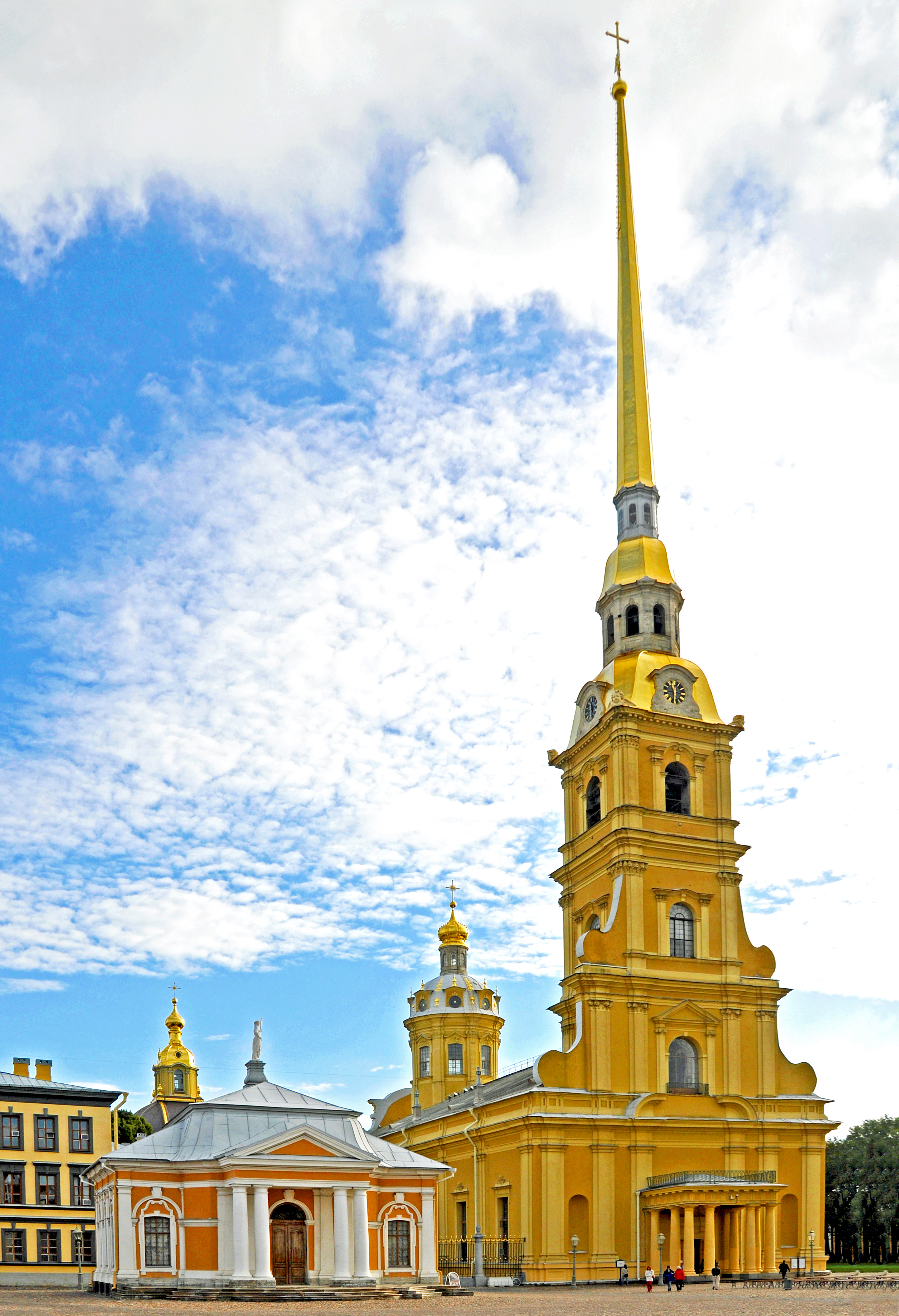 PLEASE, no multi invitations, glitters or self promotion in your comments, they will be deleted. My photos are FREE for anyone to use, just give me credit and it would be nice if you let me know, thanks - NONE OF MY PICTURES ARE HDR. In the middle of the fortress of St. Petersburg stands the Peter and Paul Cathedral, the burial place of all the Russian Emperors and Empresses from Peter the Great to Alexander III. The Cathedral was the first church in the city to be built of stone (between 1712-33) and its design is curiously unusual for a Russian Orthodox church. On top of the cathedrals’ gilded spire stands a magnificent golden angel holding a cross. This weathervane is one of the most prominent symbols of St Petersburg, and at 123 meters (404ft) tall, the cathedral is the highest building in the city. The salmon coloured building is Peter the Great's Boat House built in 1762-1765. The building was designed to store a national relic, Peter the Great's boat. Peter's small rowboat with a sail, the one he used to learn sailing, was shipped from Moscow to St. Petersburg in 1723. The original boat remained here between 1767 to 1931 and is now in the Central Museum of the Navy. An exact replica of Peter's boat was built in 1997 and installed at the Boat House in celebration of the 300th anniversary of the Russian Navy.